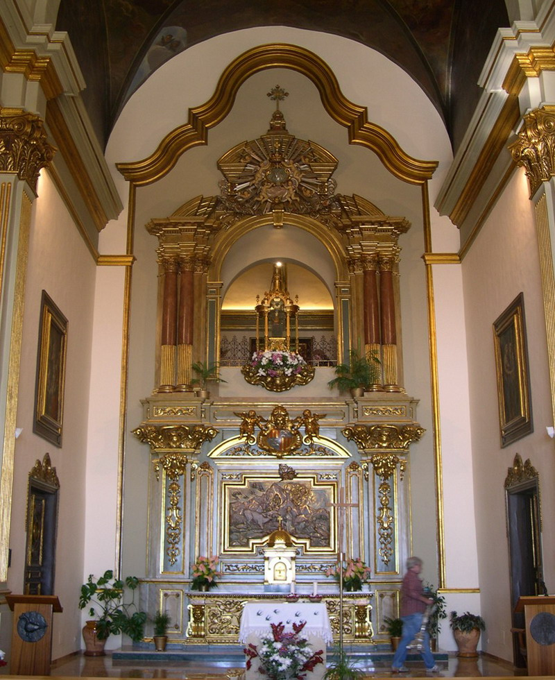 Queralt, Berguedà, Catalonia.